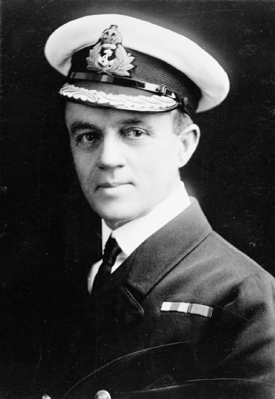 Royal Navy Captain Drury-Lowe commanded the light cruiser HMS Chatham and supporting naval force which located and trapped the German cruiser SMS Konigsberg in the Rufiji River, German East Africa, in the autumn of 1914. Faces of the First World War Find out more about this First World War Centenary project at This image is from IWM Collections.